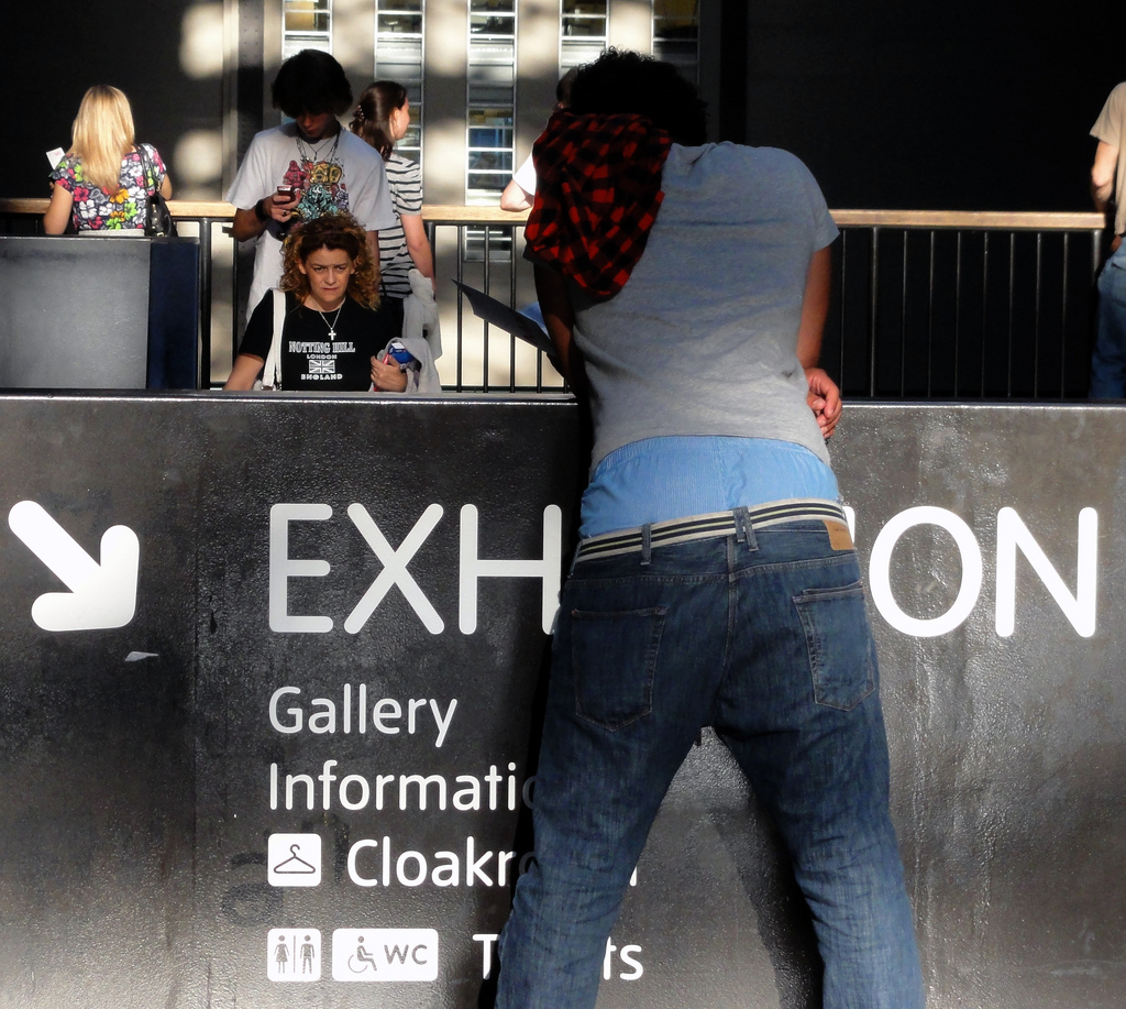 Guy sagging his pants in public.